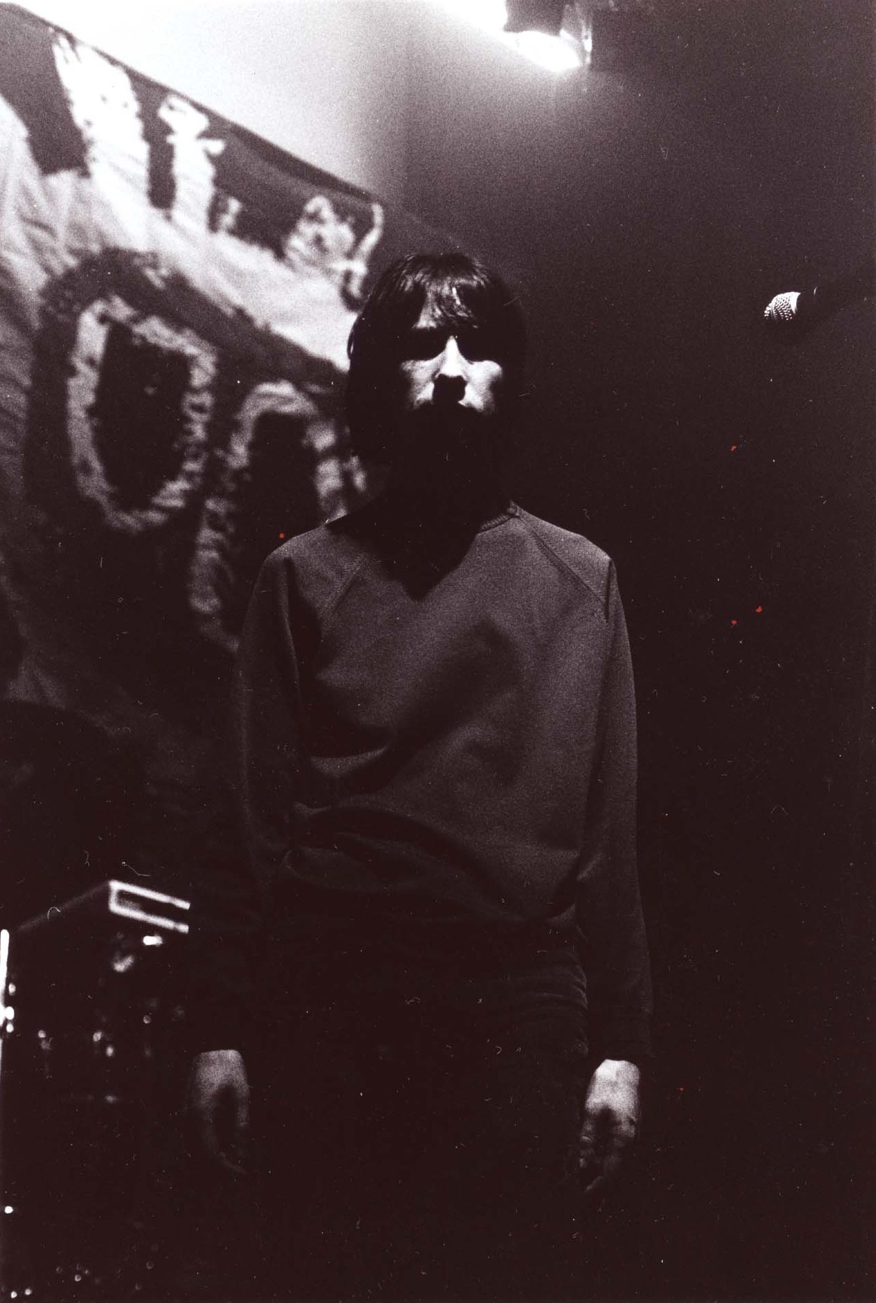 Primal Scream at Club Chitta Kawasaki, Japan. Tour for the album, "Screamadelica"